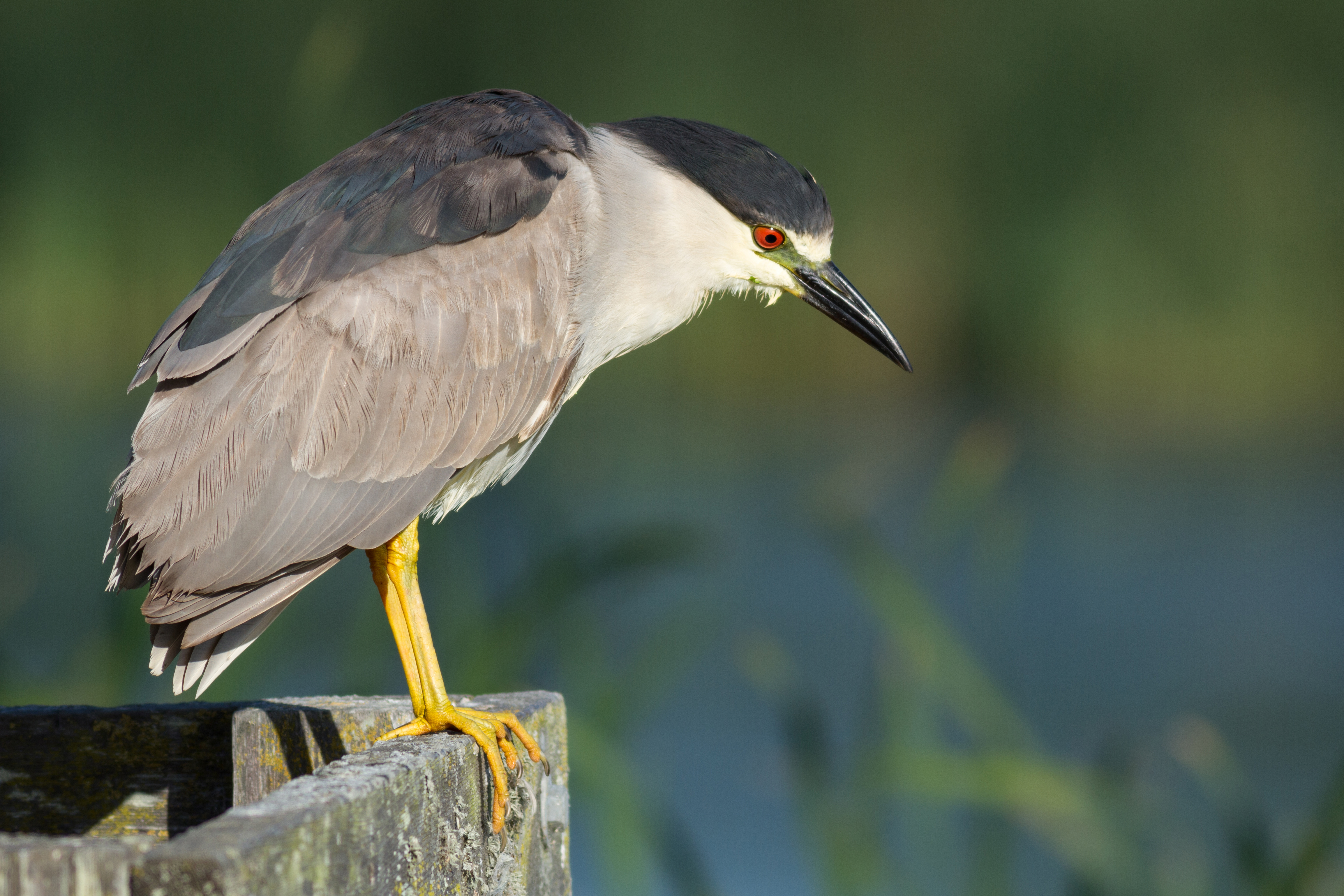 Black-crowned night-heron (Nycticorax nycticorax) at Las Gallinas Wildlife Ponds, Marin County, California.